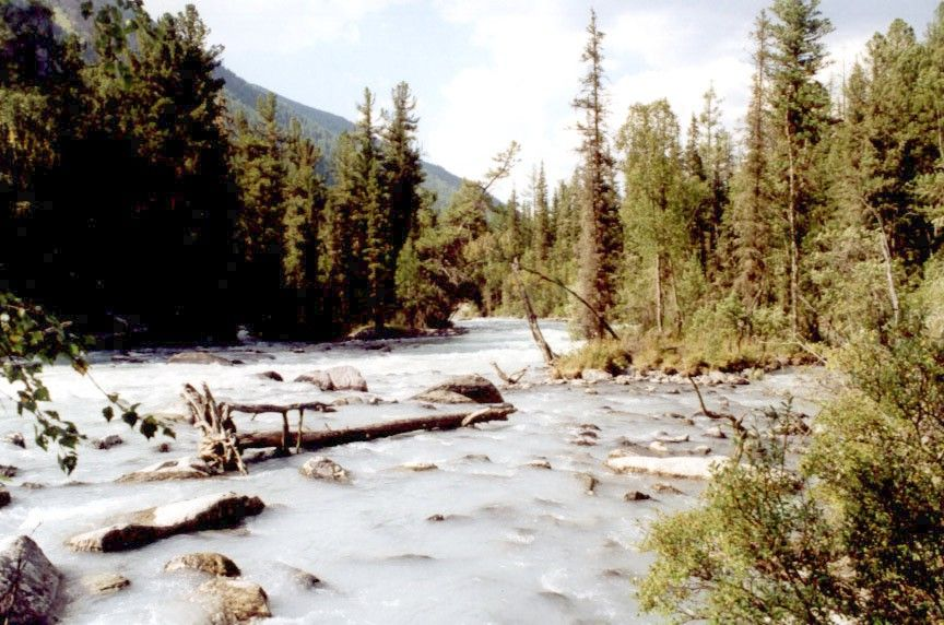 Altai, River Kucherla in Altay Mountains, Russia